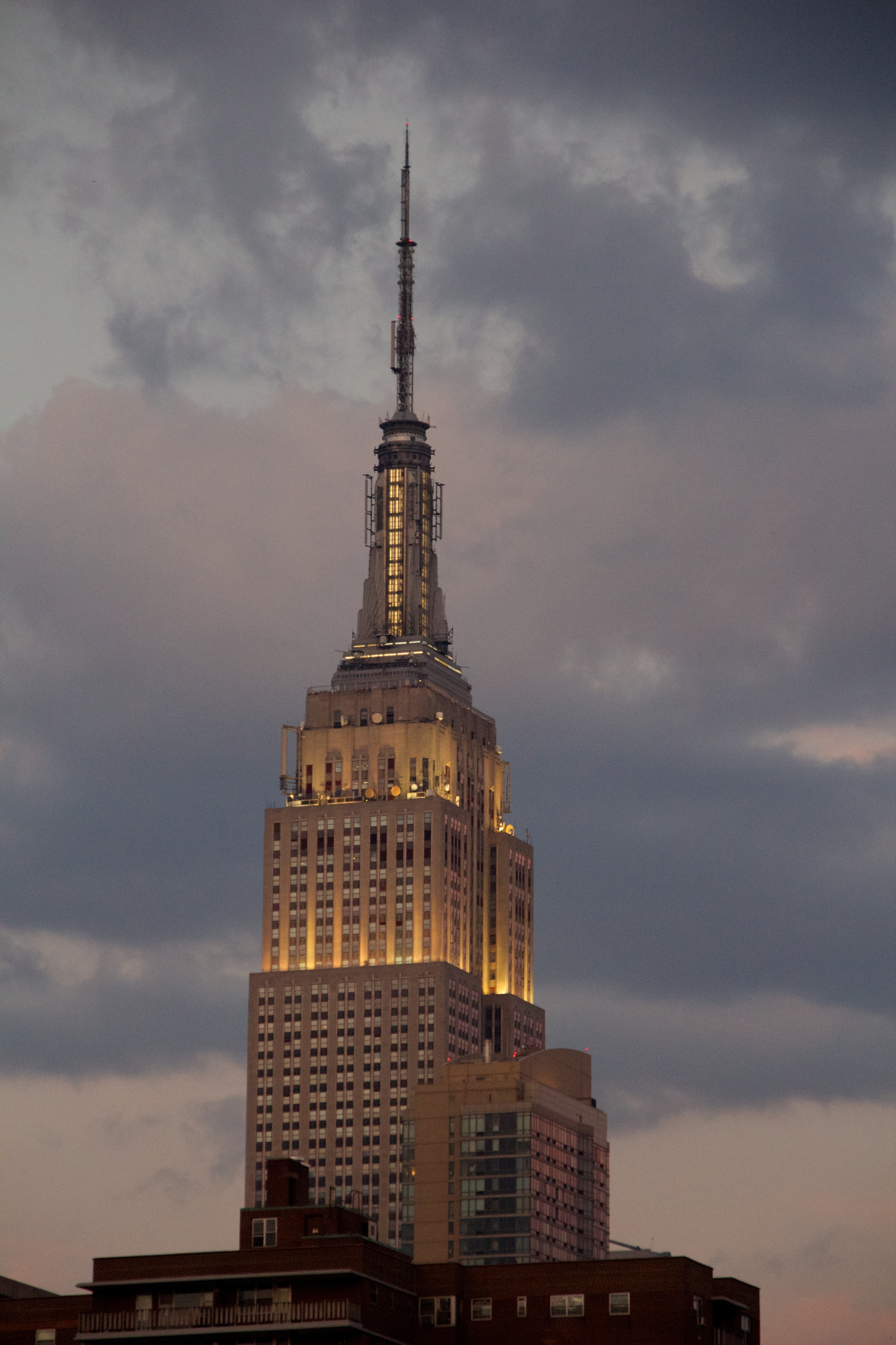 High Line, New York, in 2012.